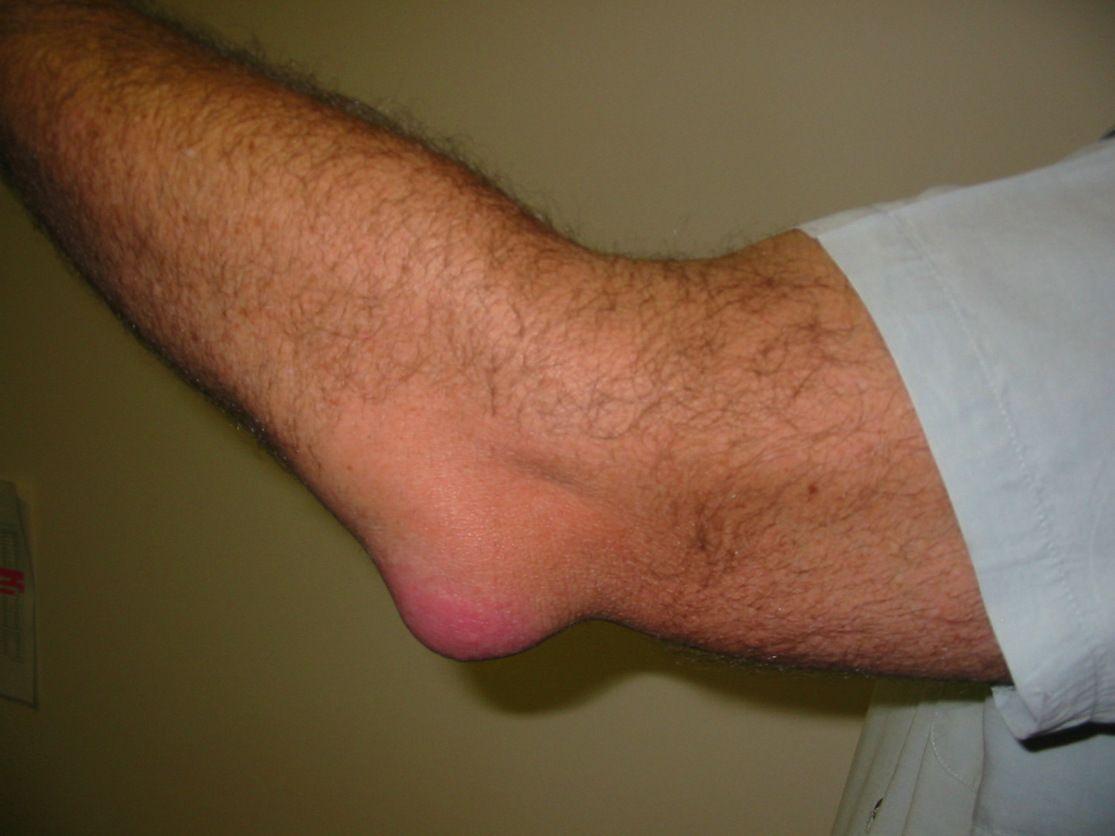 Bursitus of the elbow.